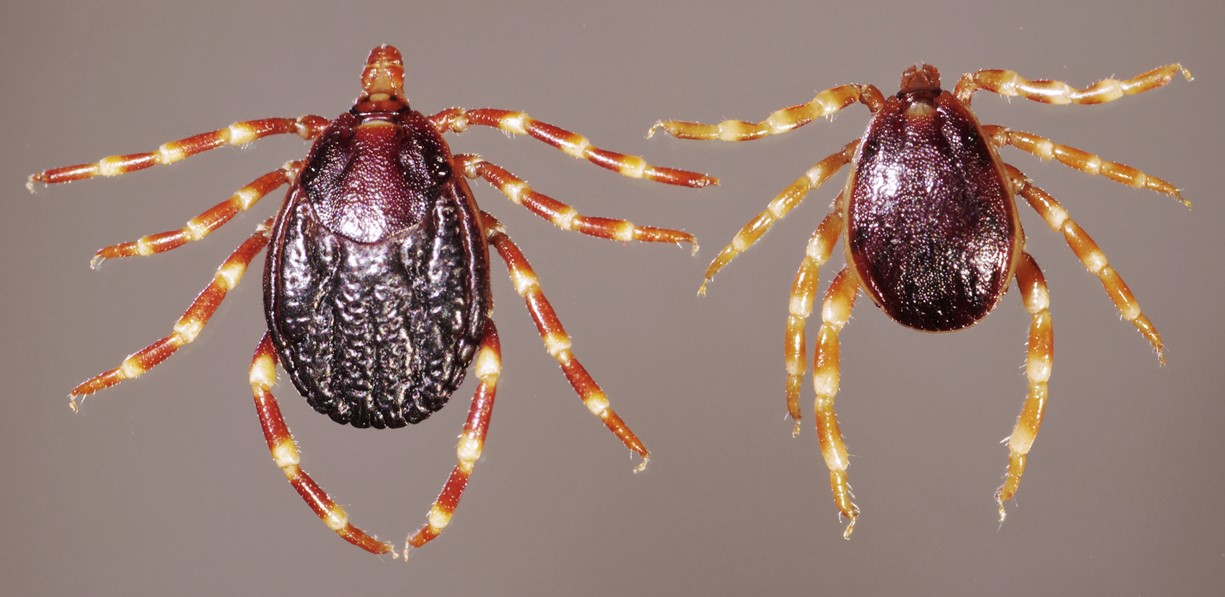 Hyalomma rufipes ixodid ticks, female and male, dorsal.